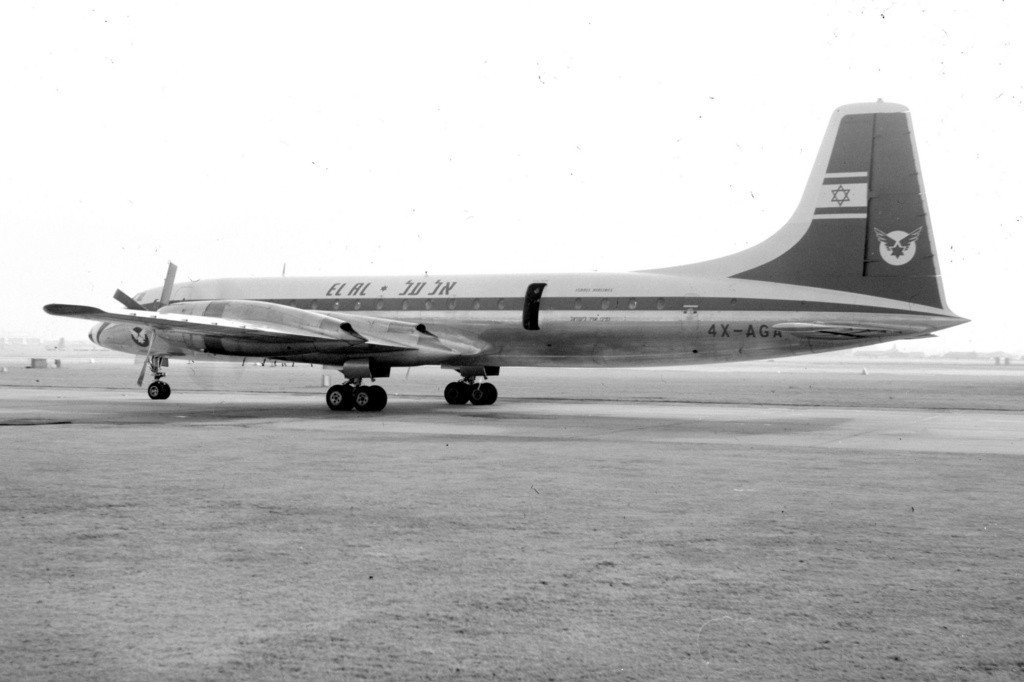 El Al Bristol 175 Britannia 313 at London Heathraw Airport. Photographer's comment: The photo was taken on the "north side" terminal of Heathrow whilst the central terminals were being built. As spotters we were not approved of in the area where friends and family of arriving, but there were other areas in which we could watch the aircraft movements. The camera used was a Voightlander "Bessa", this used 120 roll film and by inserting a screen into the camera before loading the film one could take 6 x 9cm, 6 x 6cm or 4.5 x 6cm photos.